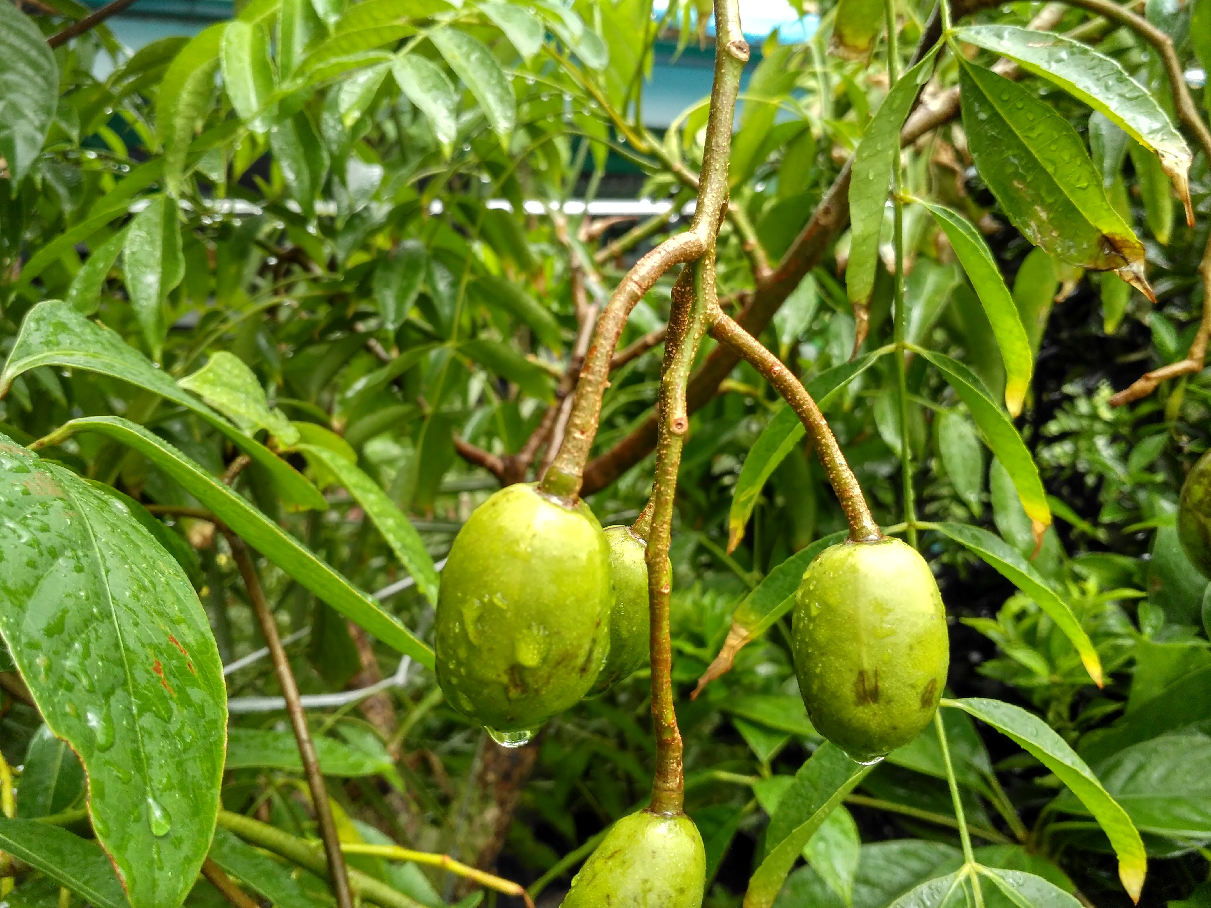 View of Spondius mombin with leaves . This photo was captured from National Tree Fair 2018, at Sher-e-Bangla Nagar, Dhaka, Bangladesh. Bangla : আমড়া।